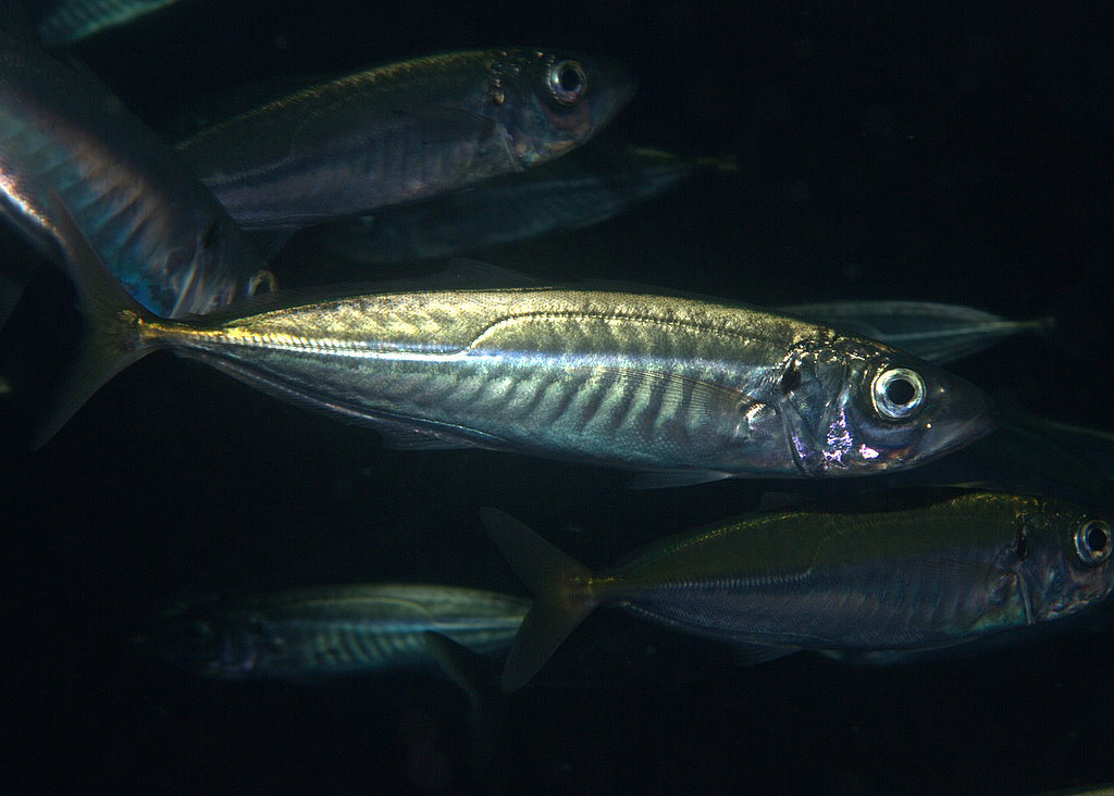 Stream if mackerel were weaving through me on a dive